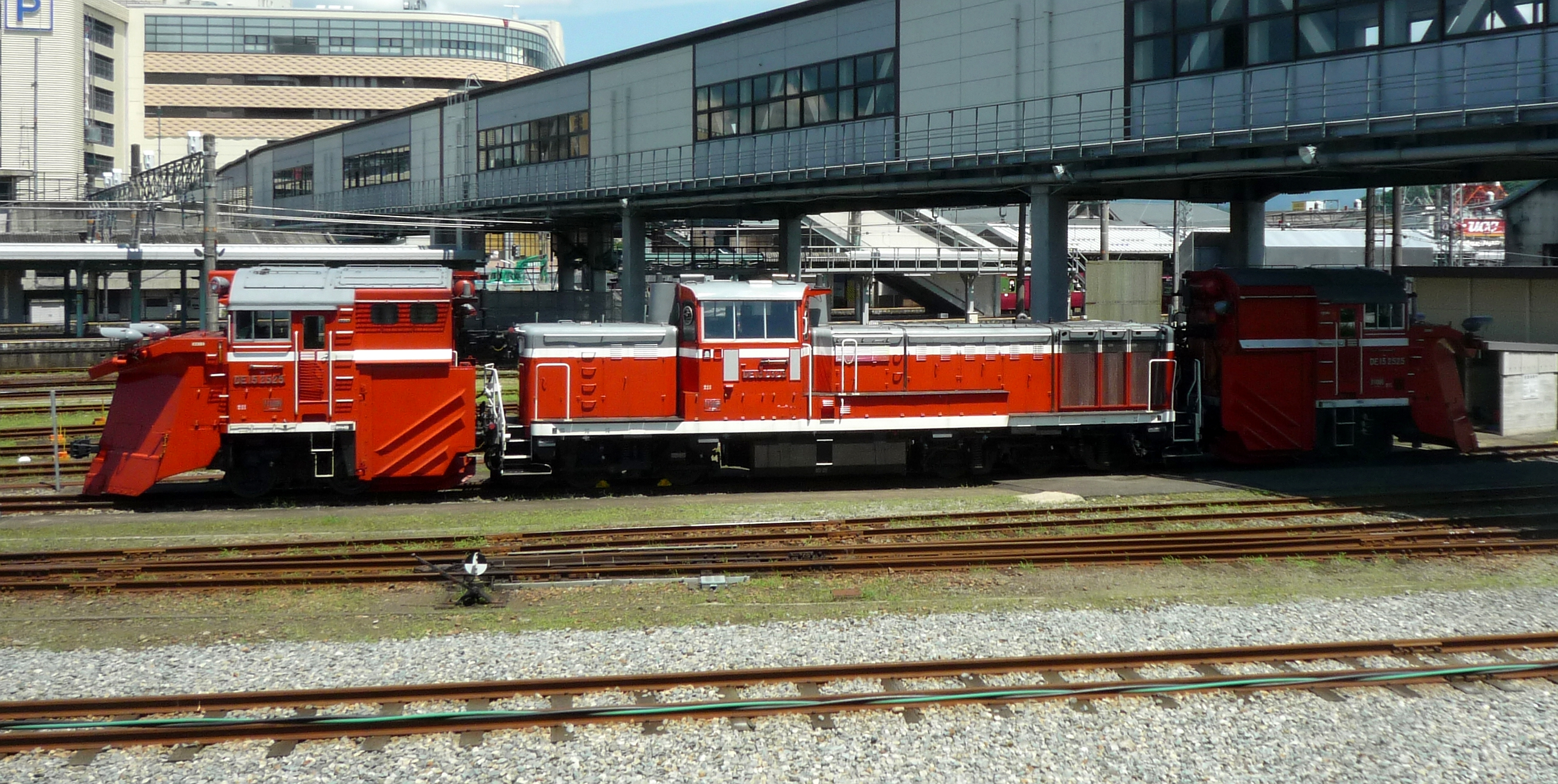 JR West Class De15 diesel locomotive DE15 2525 at Toyooka Station in Toyooka, Hyōgo Prefecture, Japan